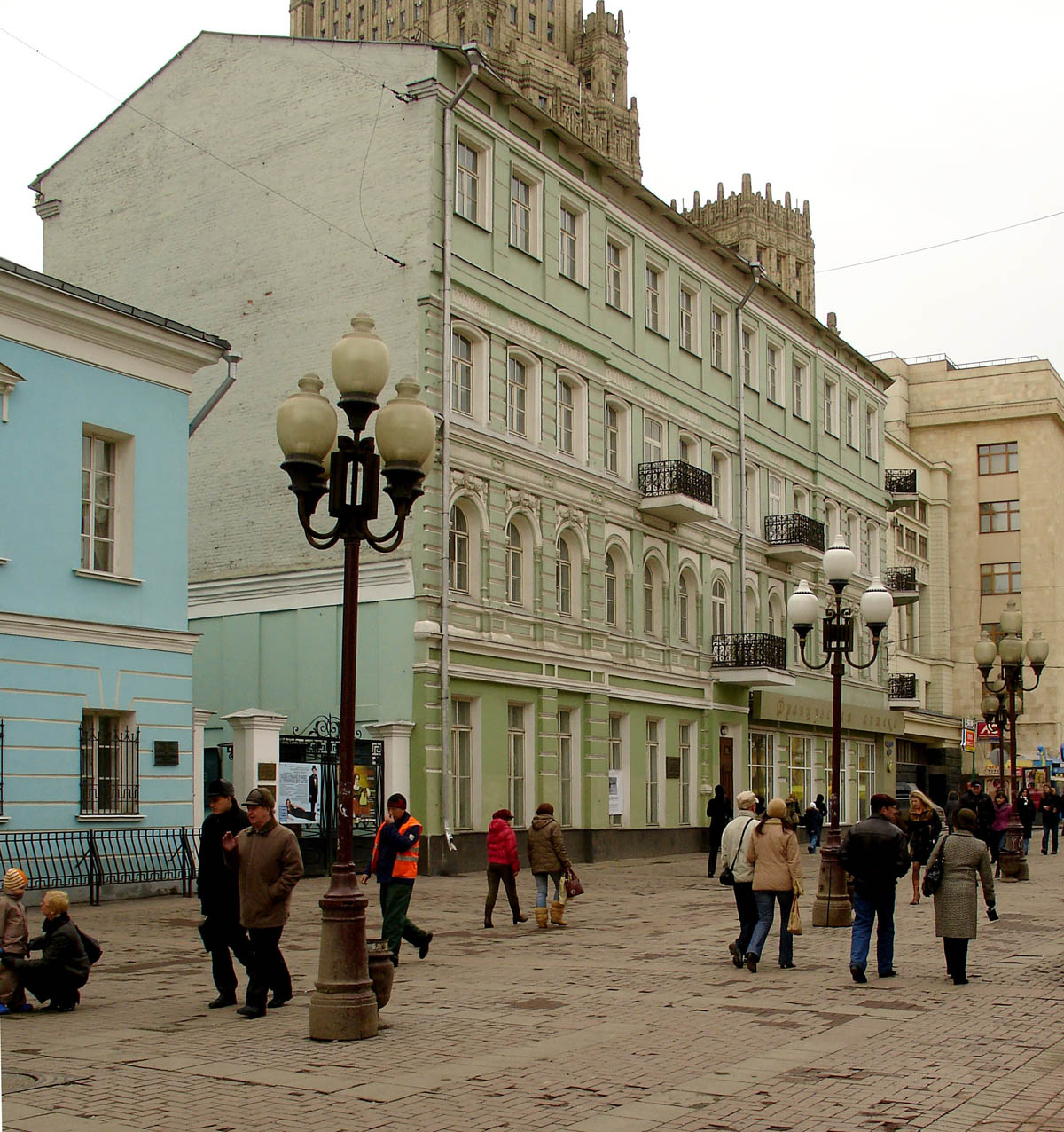 Arbat Street, Moscow